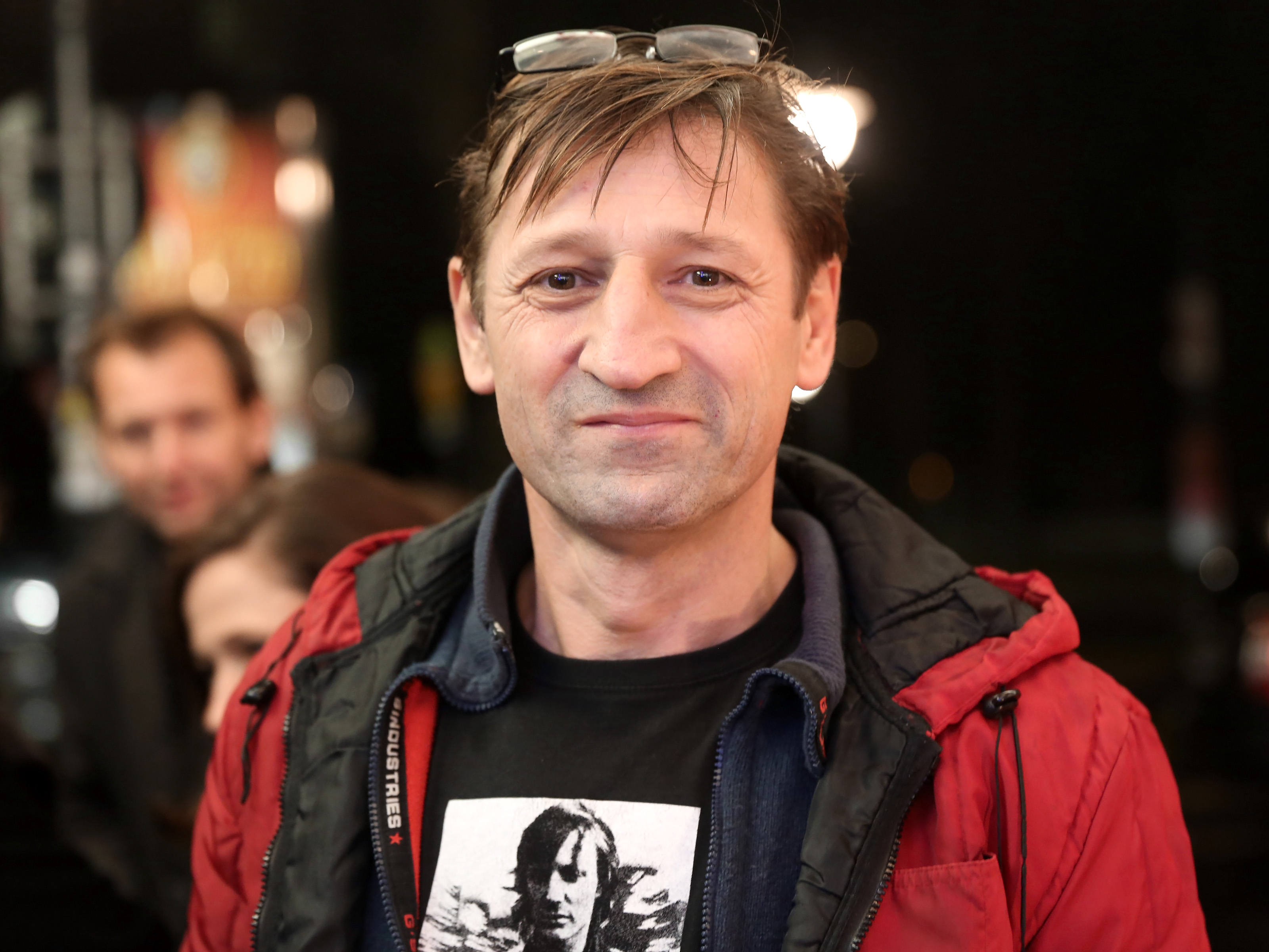 Andreas Patton at the premiere of the movie Therapy for a Vampire at Gartenbaukino in Vienna, Austria.